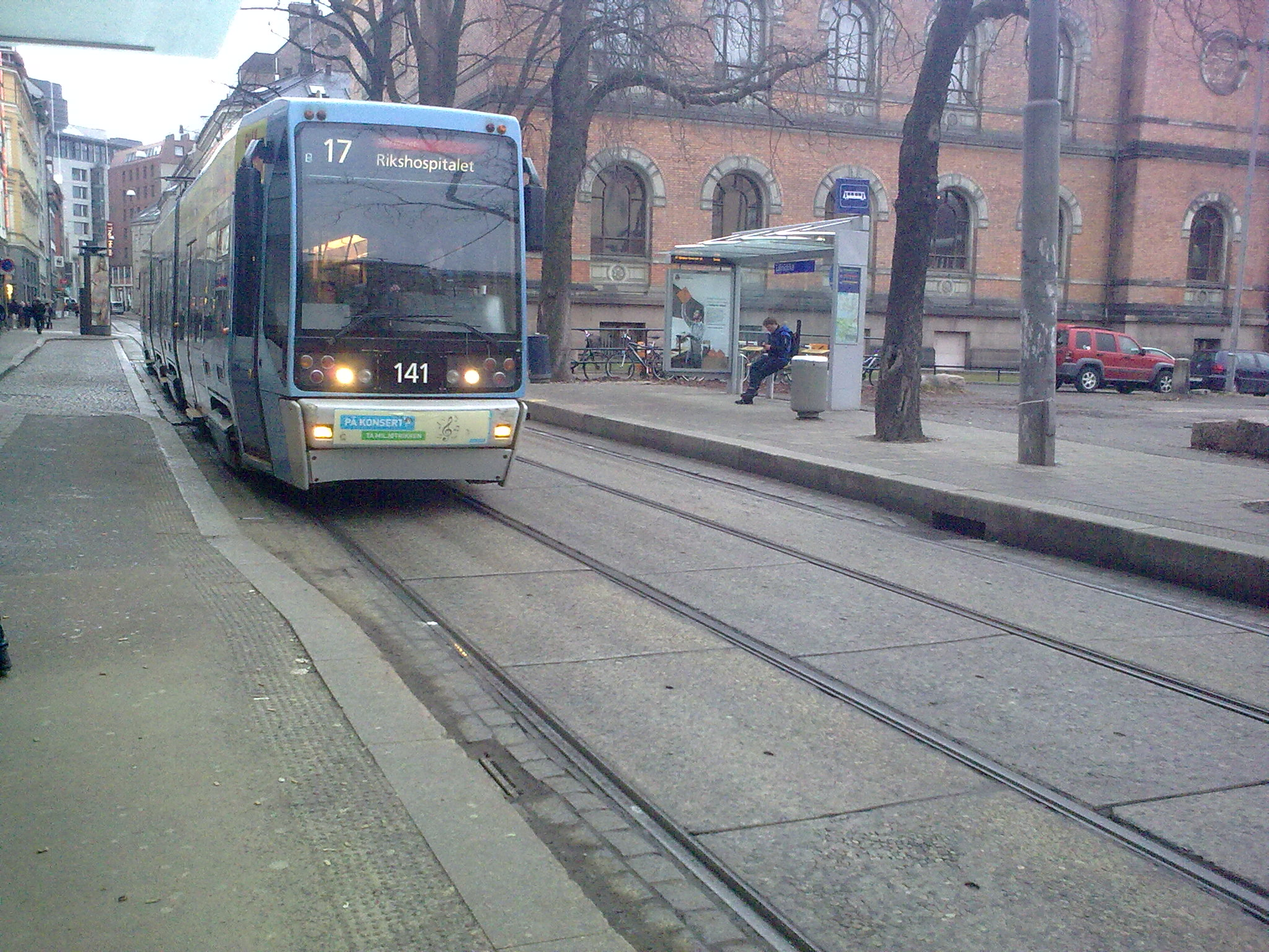 Tram 17 on the Ullevål Hageby line stopping at Tullinløkka (station), heading towards Rikshospitalet (station)